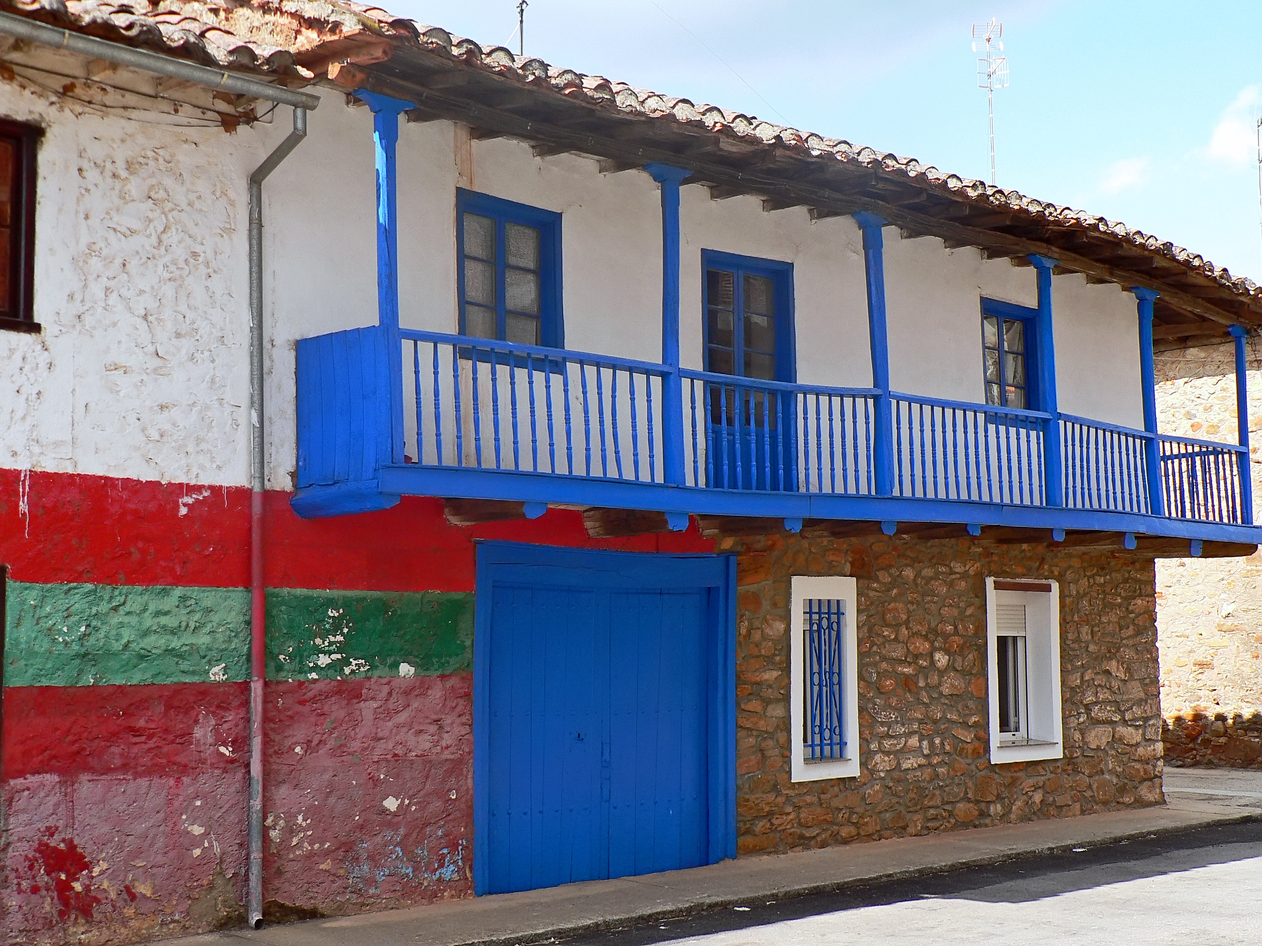 House in the spanish town of Castrocontrigo, Province of León